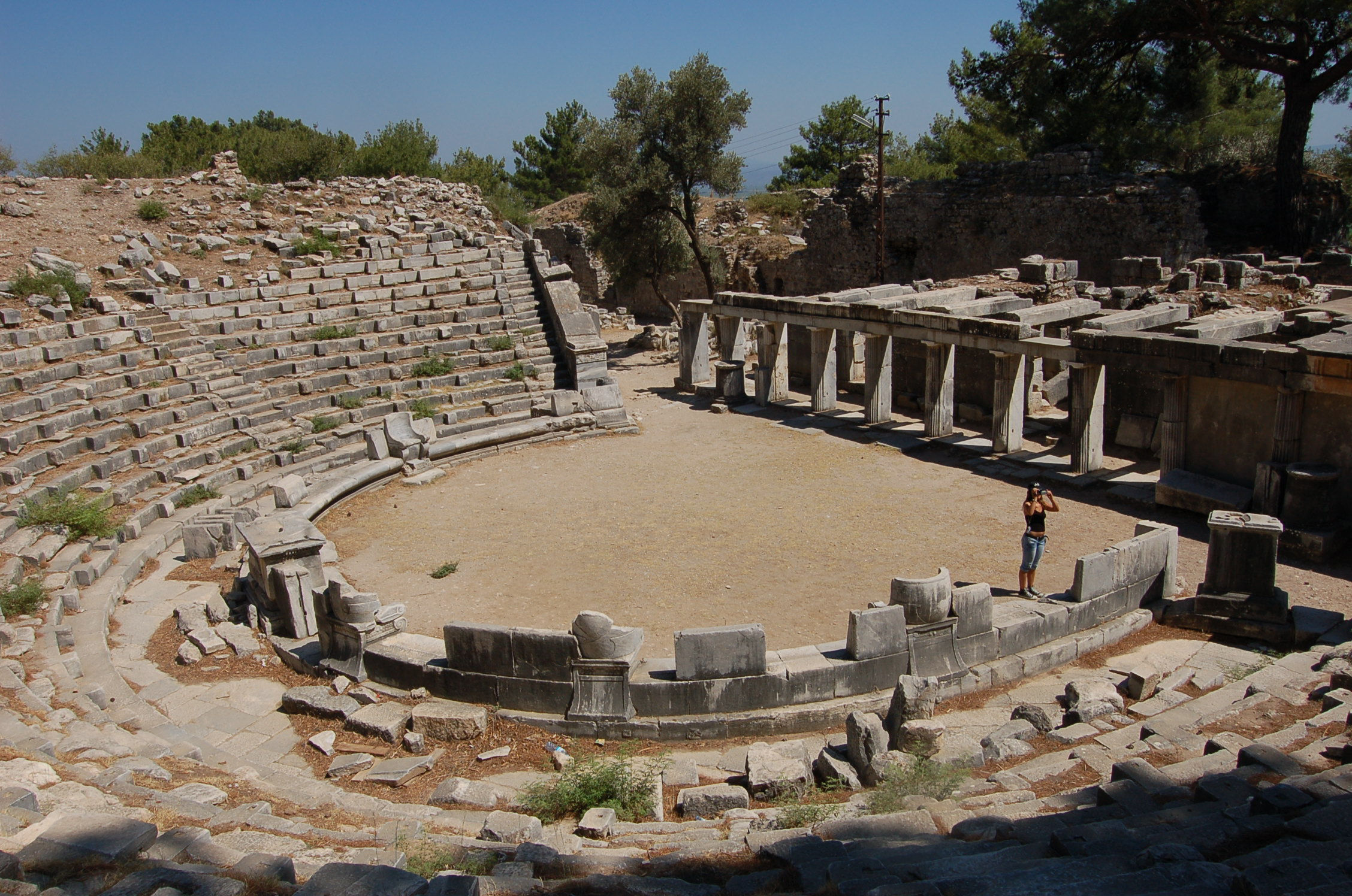 The theatre at Priene